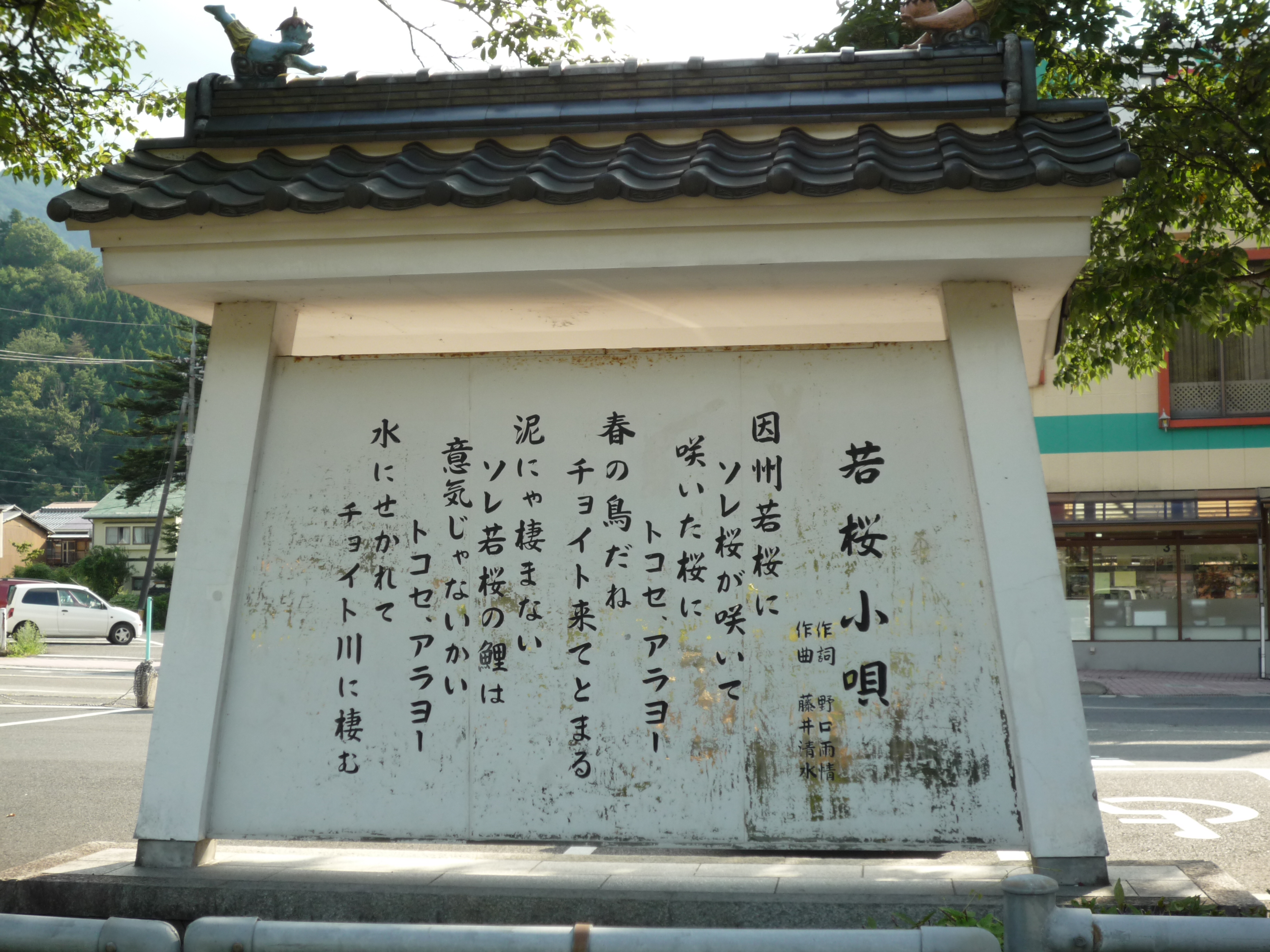 Wakasa Kouta song monument in Wakasa Station of Wakasa Railway, Wakasa, Yazu District, Tottori Prefecture, Japan.